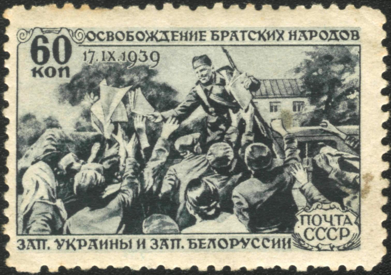 USSR stamp (1940): Liberation of Western Ukraine and Western Belorussia on 17th of September, 1939, 60 kopecks. CPA #727, Scott #770.